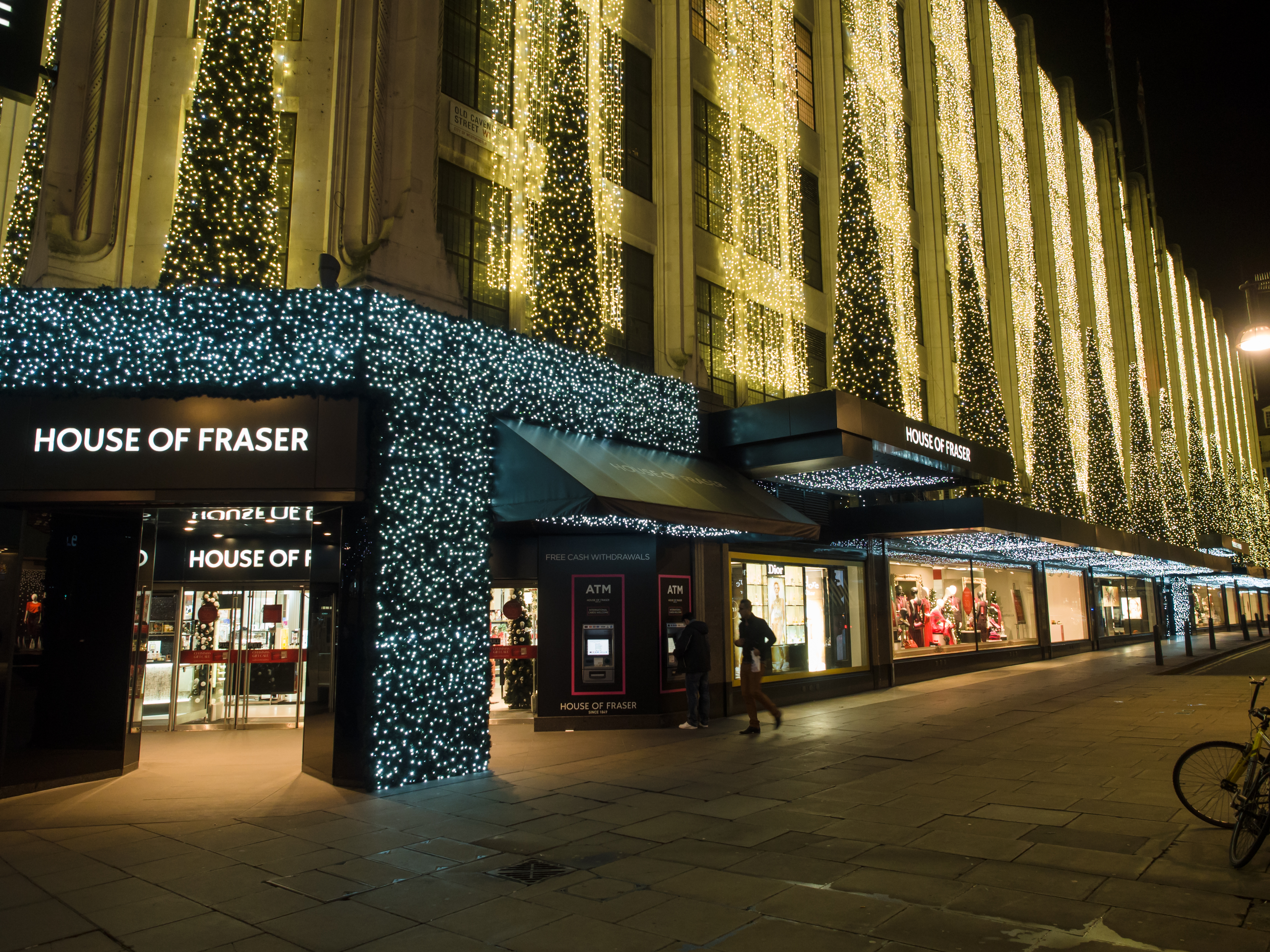 Lit up for Christmas in November; Oxford Street